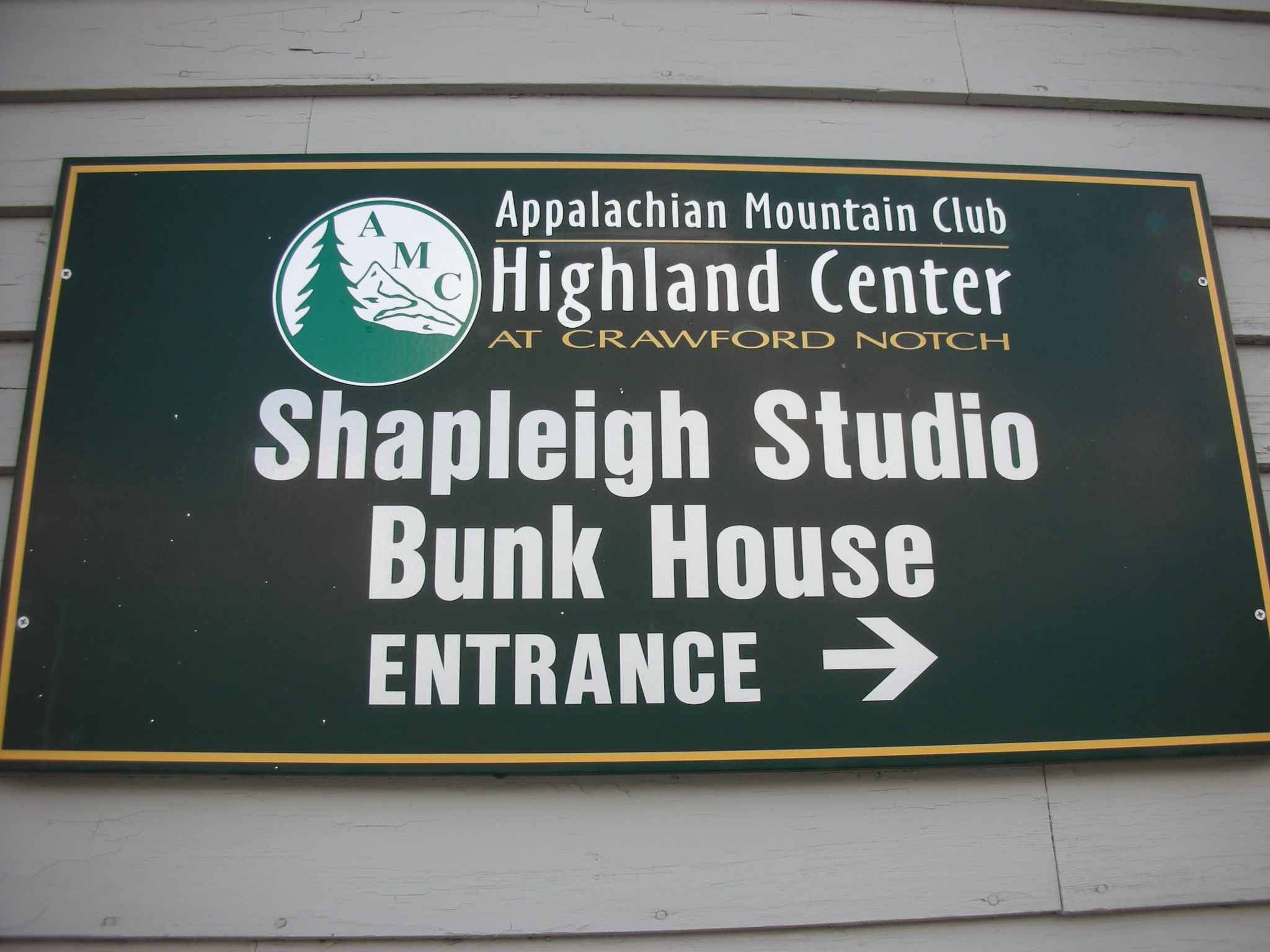 AMC. Highland Center at Crawford Notch